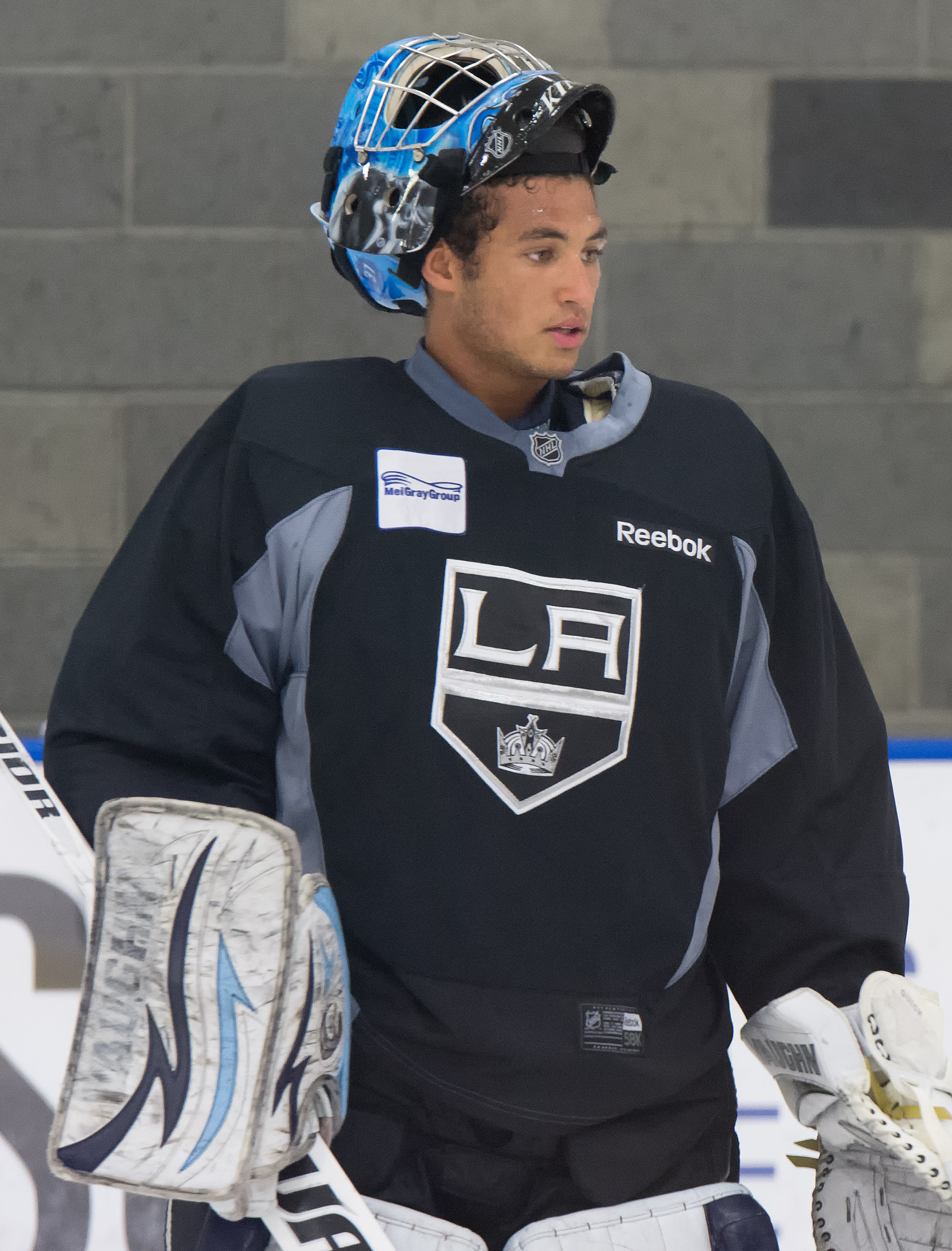 Christopher Gibson in 2012